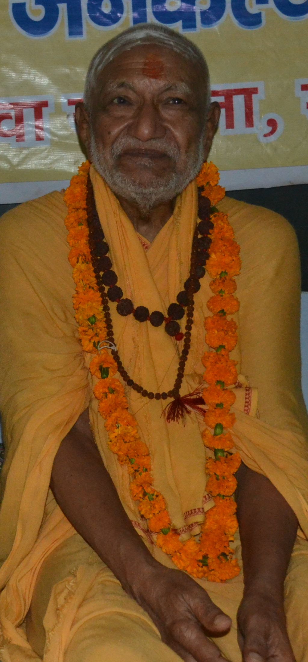 Dr. G. D. Agrawal is a respected doyen of environmental engineers in India.